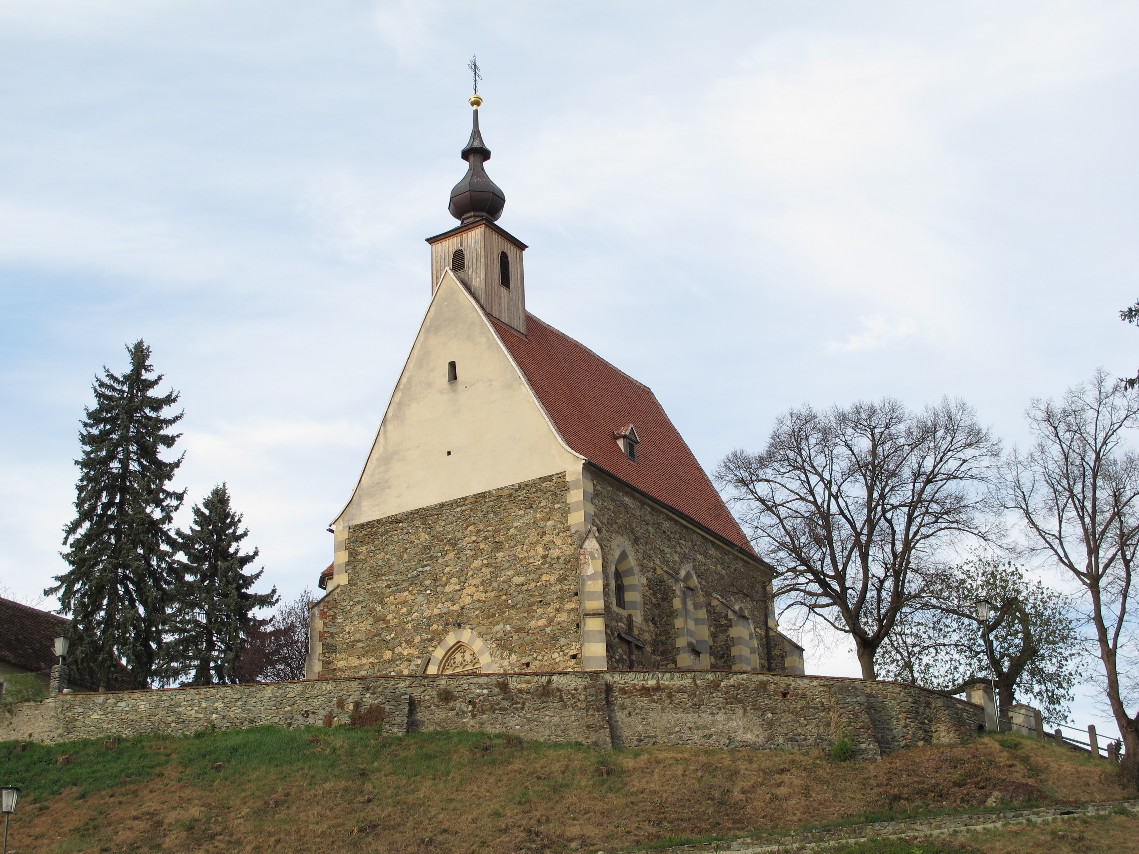 Pfarrkirche Hannersdorf